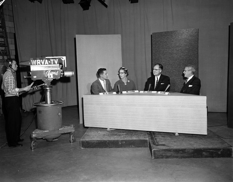 Title: Richmond Council of Churches, WRVA-TV Creator: Adolph B. Rice Studio Date: January 10, 1959 Identifier: Rice Collection 2149A Format: 1 negative, safety film, 4 x 5 in. Repository: Library of Virginia, Prints and Photographs, 800 E. Broad St., Richmond, VA, 23219, USA, :8881/R